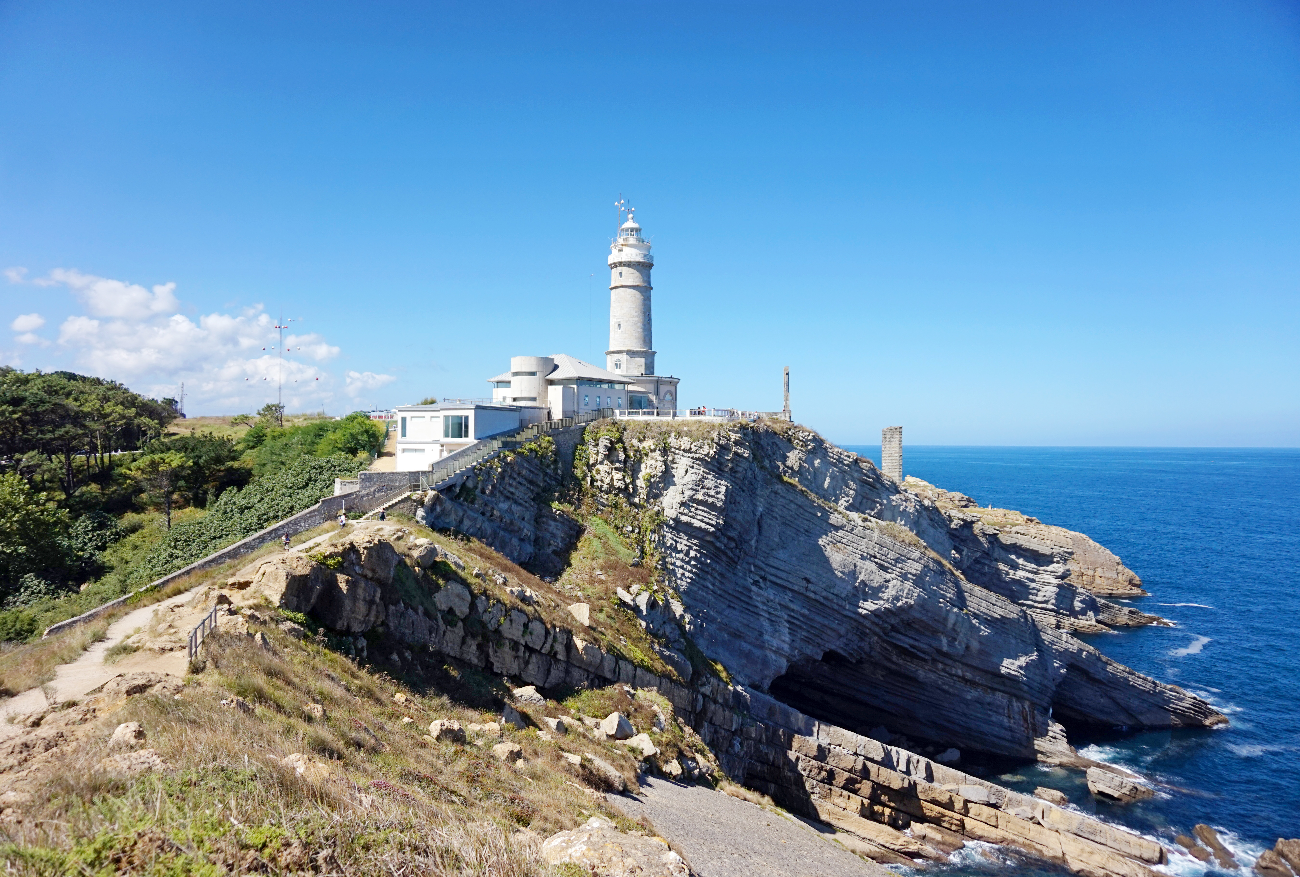 Faro de Cabo Mayor in Santander. This photograph was taken with a Sony Alpha a5000.